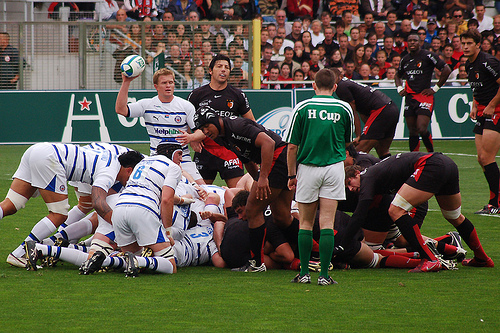 Collapsed scrum - Michael Claassens, Byron Kelleher - Bath Rugby v Stade toulousain - 12 October 08 - Heineken Cup